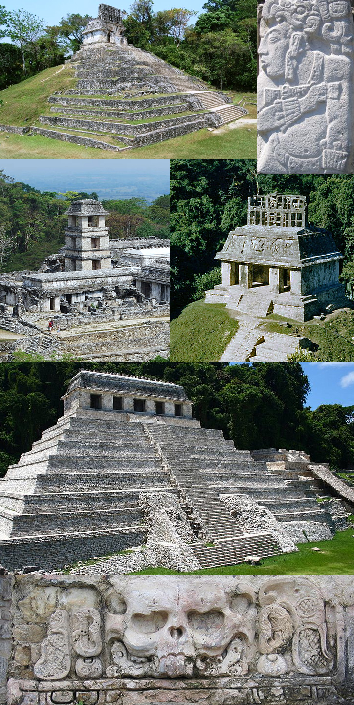 Collage of pictures taken from wikimedia commons to describe palenque in a few pictures